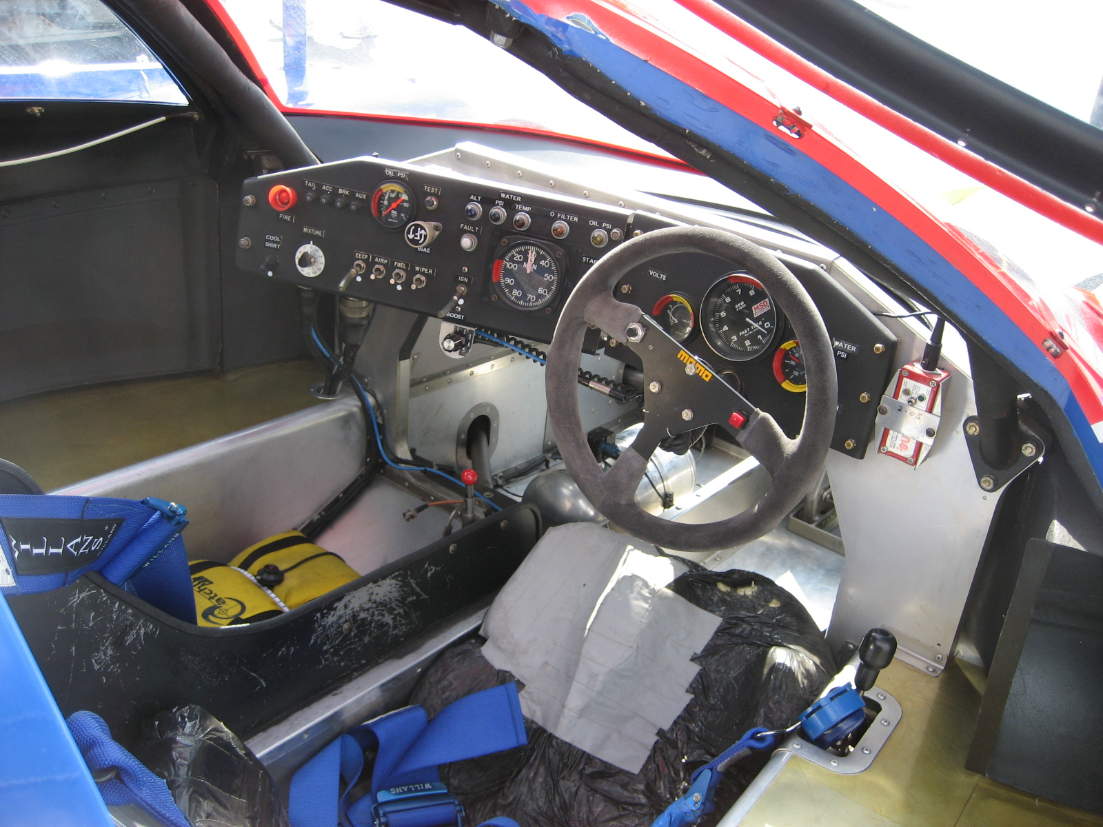 The cockpit of Nissan GTP ZX-Turbo chassis ZXT-8805.